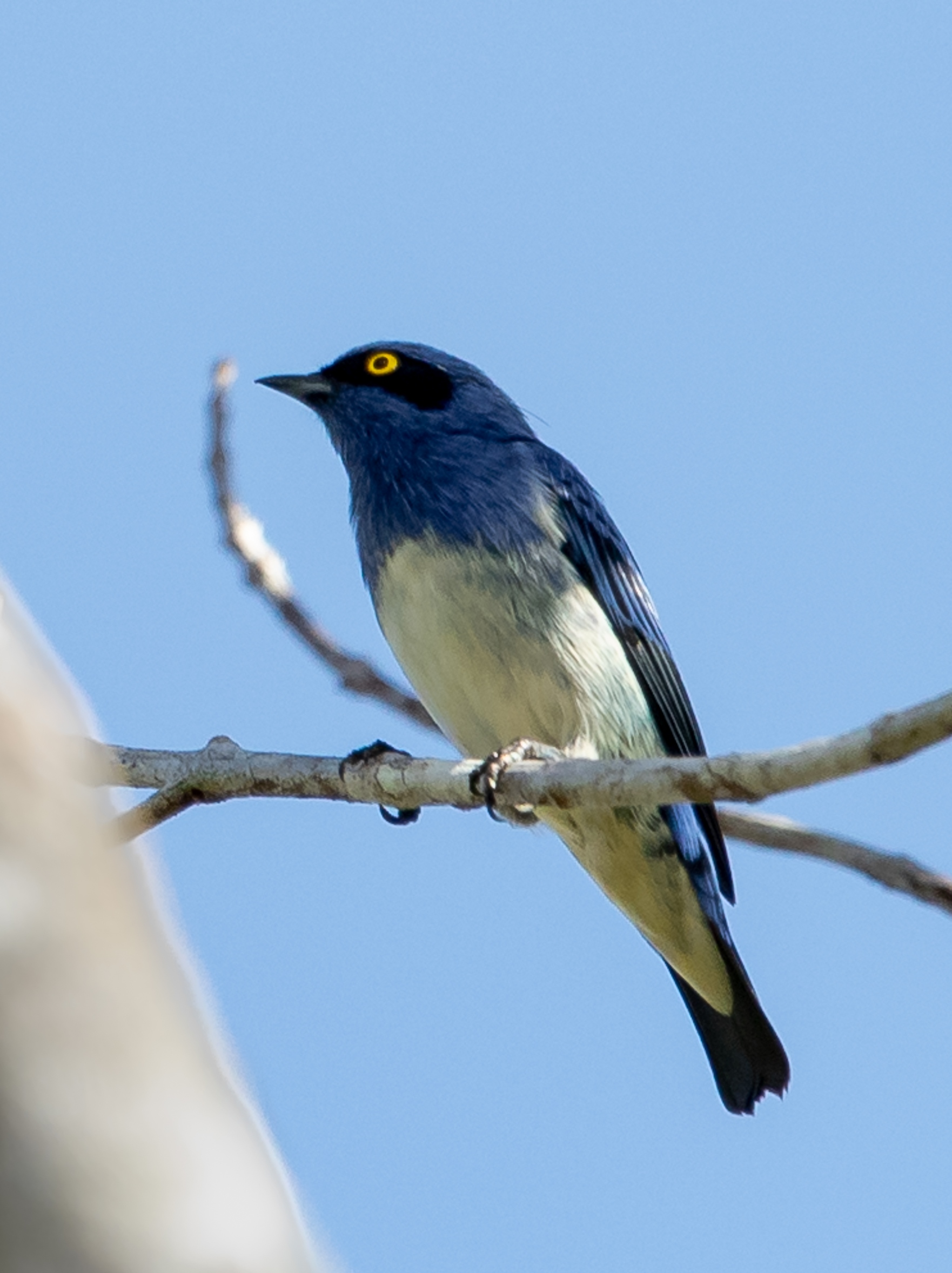 White-bellied dacnis (male); Beruri, Amazonas, Brazil